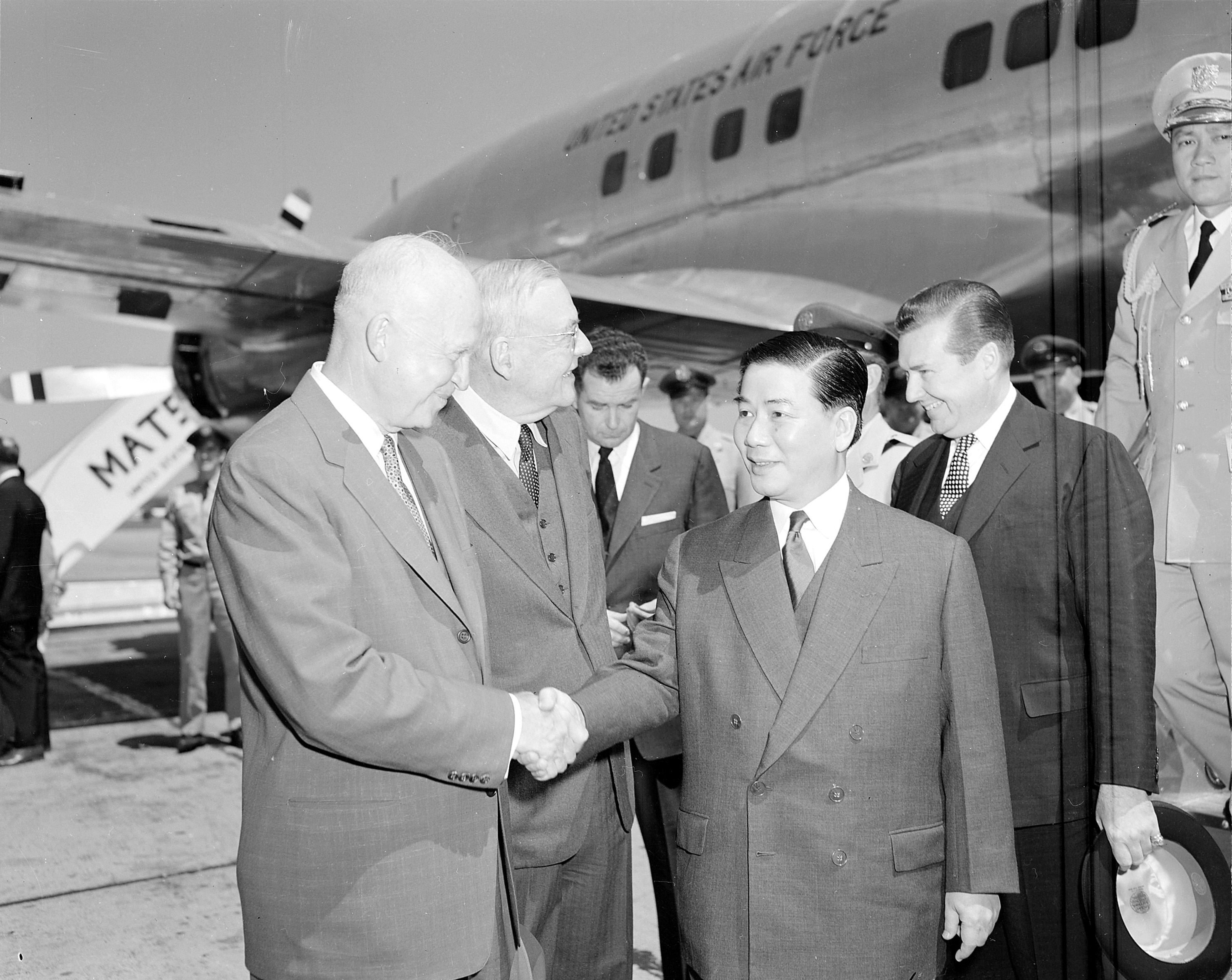 U.S. President Dwight D. Eisenhower and Secretary of State John Foster Dulles (from left) greet South Vietnamese President Ngo Dinh Diem at Washington National Airport. 05/08/1957 ARC Identifier: 542189 Item from Record Group 342: Records of U.S. Air Force Commands, Activities, and Organizations, 1900 - 2000 Part of Series: Black and White Photographs of U.S. Air Force and Predecessors' Activities, Facilities, and Personnel, Domestic and Foreign, 1930 - 1975